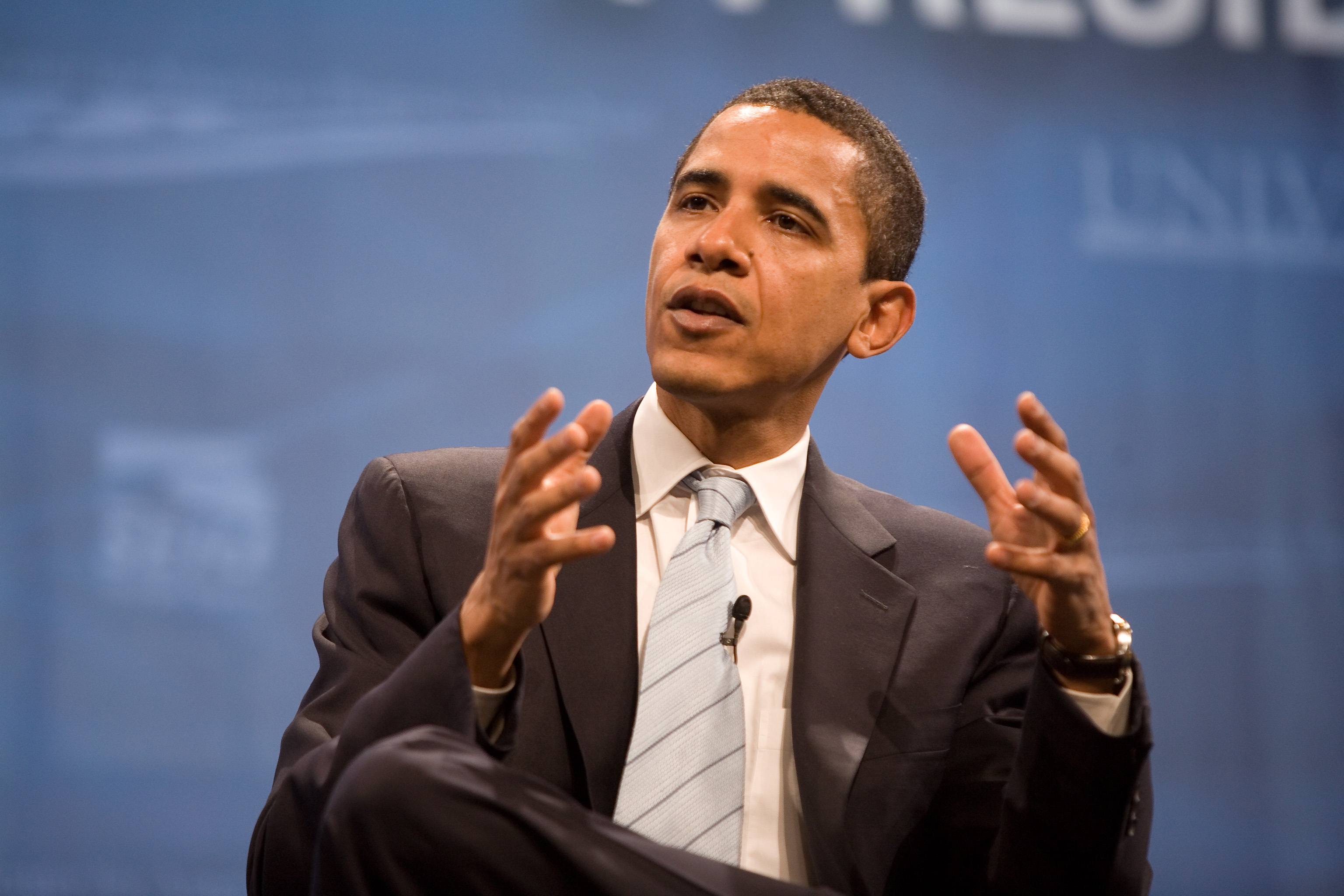 American Senator and presidential hopeful Barack Obama at the Presidential Health Forum in Las Vegas, Nevada, USA.